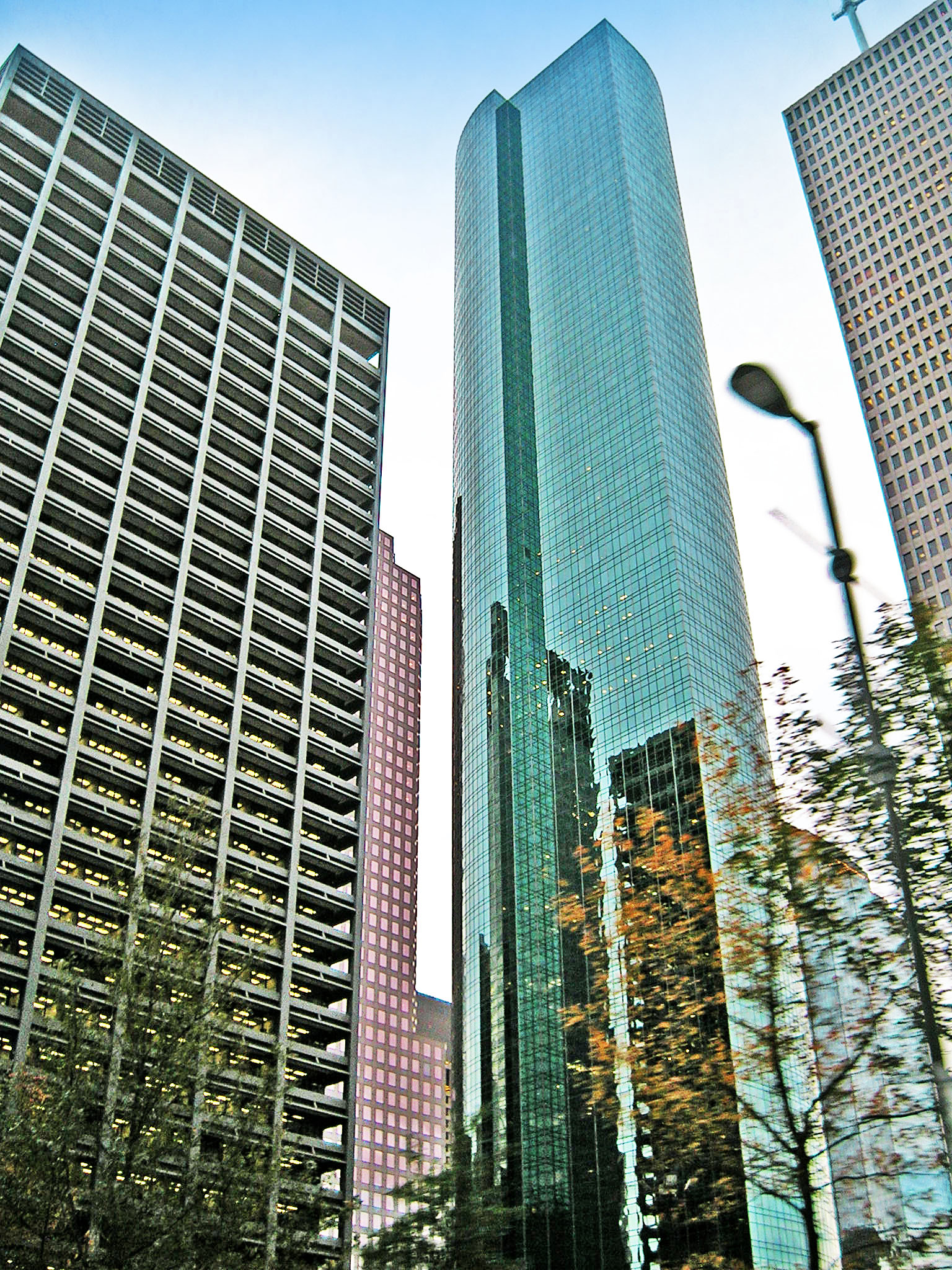 The Wells Fargo Bank Plaza in Houston, Texas, USA. - Headquarters of Dynegy and location of the British consulate.